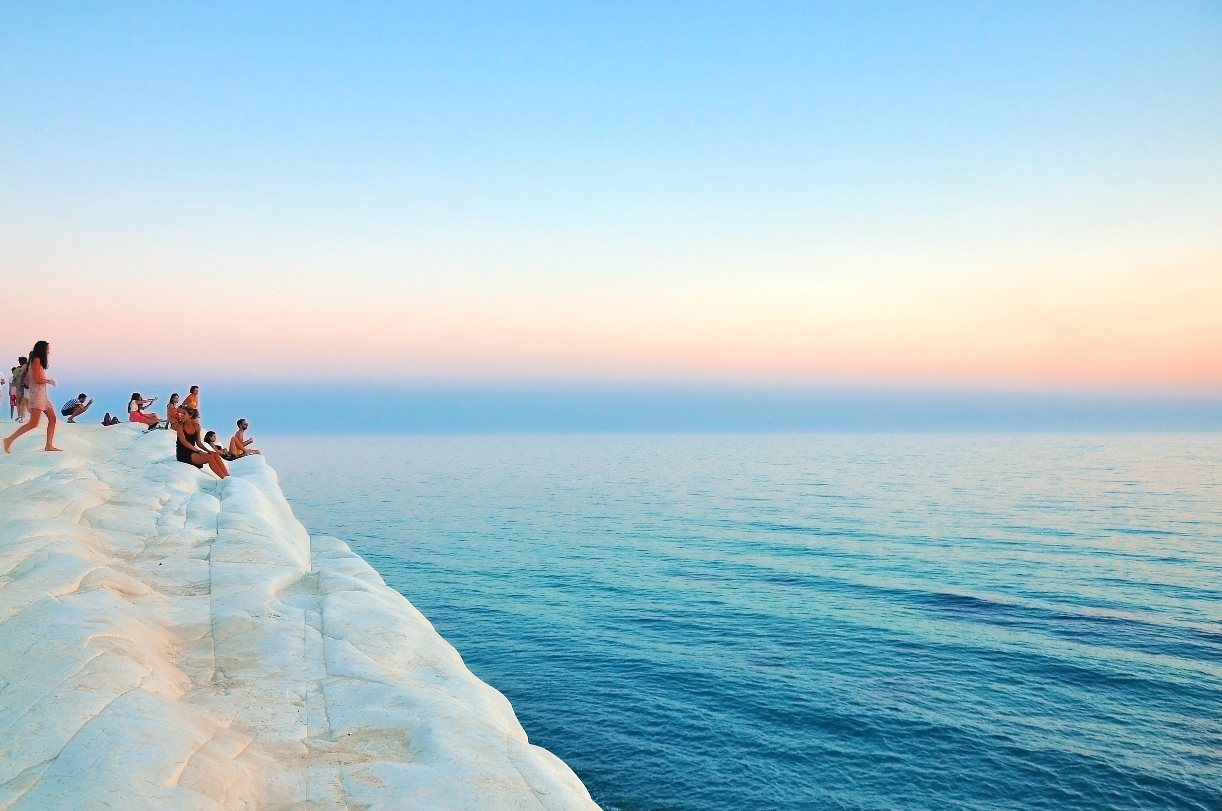 Realmonte, sicily